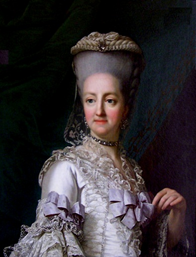 Portrait of Queen Juliane Marie of Denmark (1729-1796)